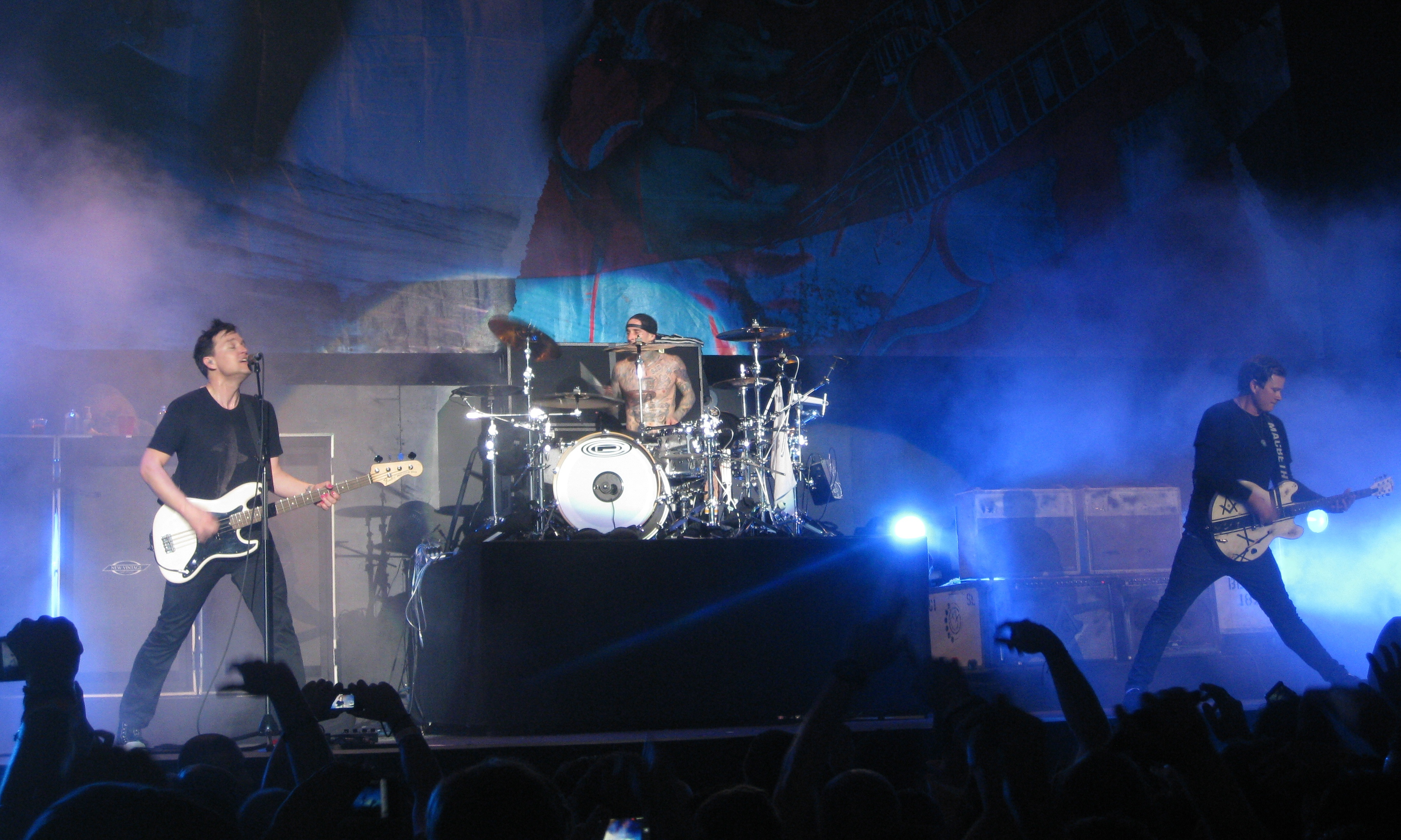 Blink-182 performing at the Valley View Casino Center in San Diego, California on December 11, 2011 as part of radio station 91X's "Wrex the Halls" concert. Left to right: singer/bassist Mark Hoppus, drummer Travis Barker, and singer/guitarist Tom DeLonge.